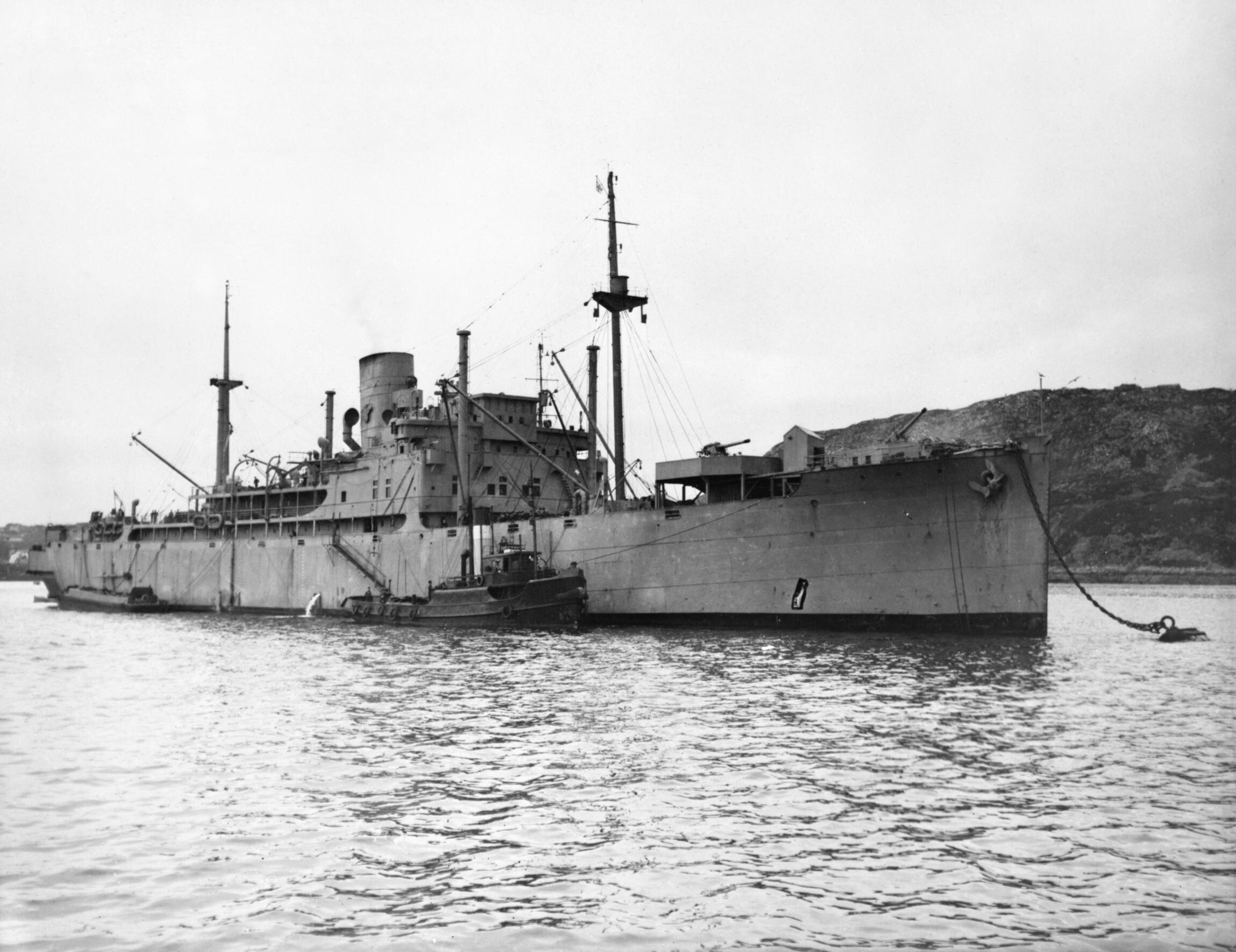 The Royal Navy during the Second World War HMS SOUTHERN PRINCE in harbour at a minelaying base on the Kyle of Lochalsh. She was the largest of the auxiliary minelayers.